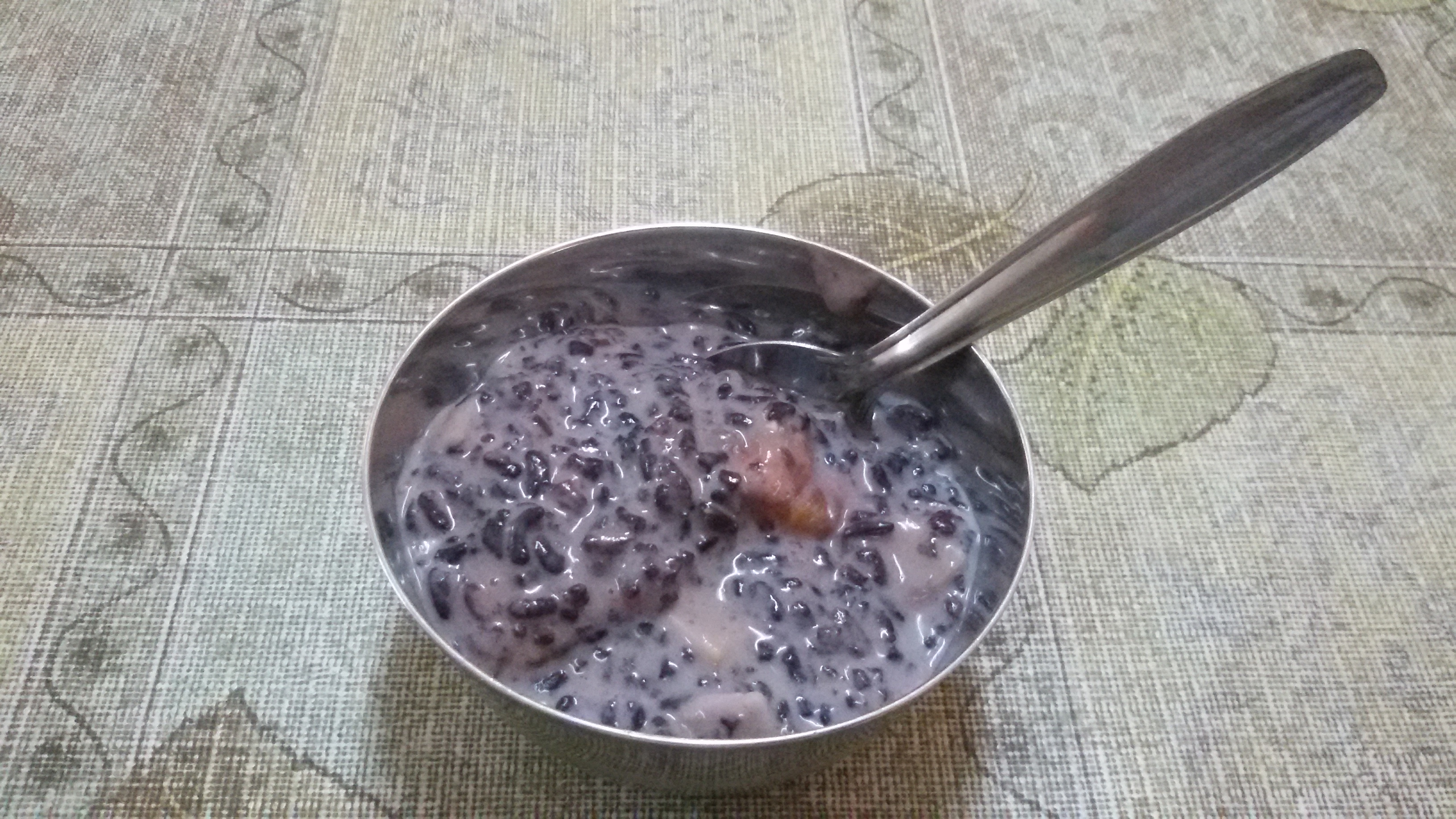 The image is the photograph of a bowl of Chahao Kheer, a very popular dessert of Manipur. Chahao is an aromatic rice, dark purple (almost black) in colour, grown in Manipur. The kheer (payasam) is prepared using the Chahao rice, milk, coconut and raisins. The above photograph was taken at the guest house canteen of Manipur University.